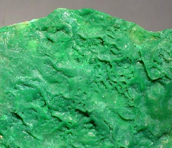 Falcondoite, Willemseite Locality: Loma Peguera, Bonao, Monseñor Nouel Province, Dominican Republic (Locality at ) Size: 4.3 x 3.0 x 0.3 cm. Falcondoite and willemseite are rare nickel, magnesium silicates found in a serpentinized harzbergite massif or an obducted ophiolite at a plate collision of oceanic crust with continental crust. The locality is in the Dominican Republic, which is the Type Locality for falcondoite. This very showy, bright green thin crust is mostly green falcondoite, with just a bit of lighter, olive willemseite.